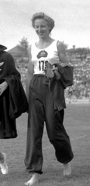 Australian athlete, Shirley Strickland, (centre) after winning the 80 yards hurdles event at the 1950 Empire Games in Auckland, February 1950. SMH Picture by MARTIN